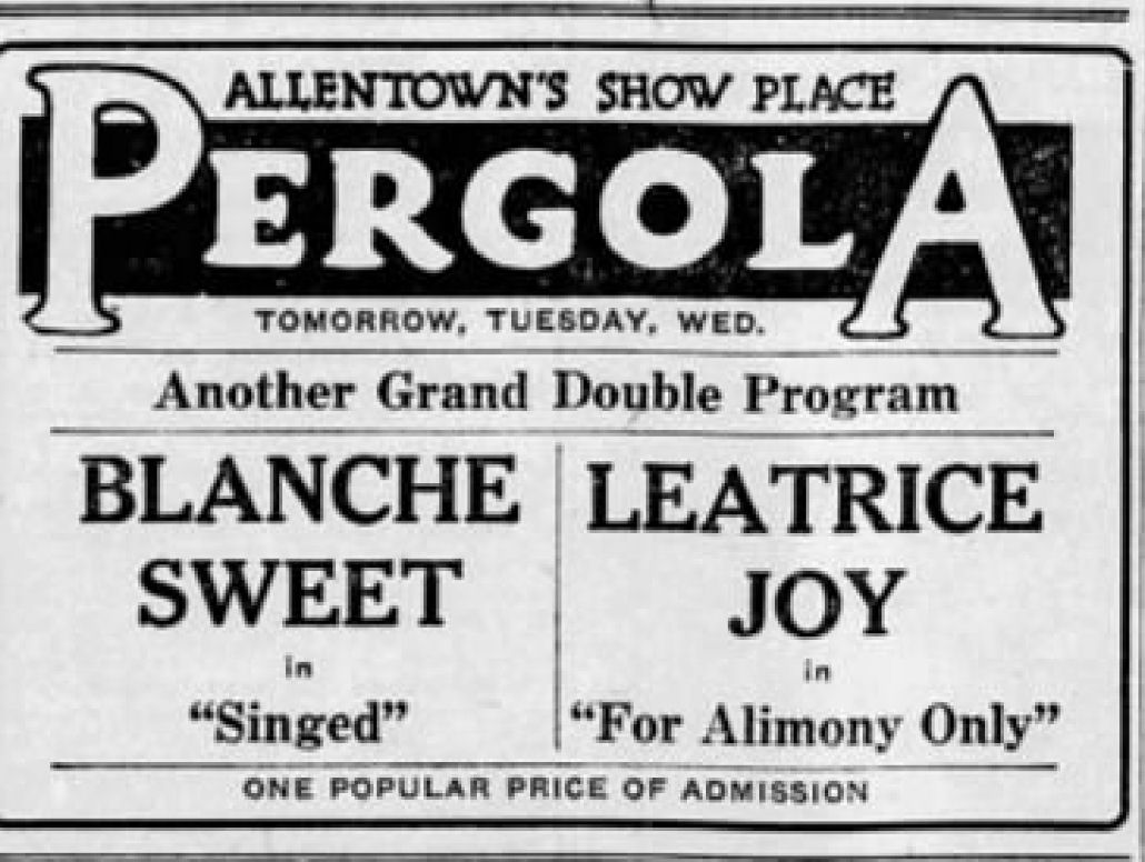 New Pergola Theater advertisement for the American films Singed (1927) and For Alimony Only (1926) - 30 Oct. 1927 Morning Call, Allentown PA